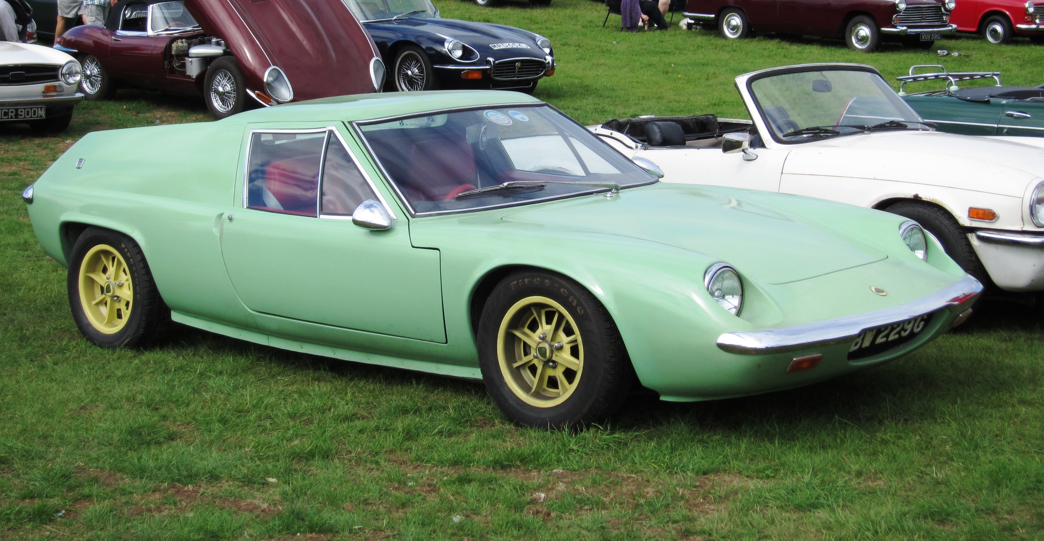 1968 Lotus Europa S2, early version still using some carryover S1B details.